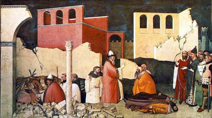 Pope Sylvester I portrayed turning a dragon out of the Roman Forum and reviving its victims.